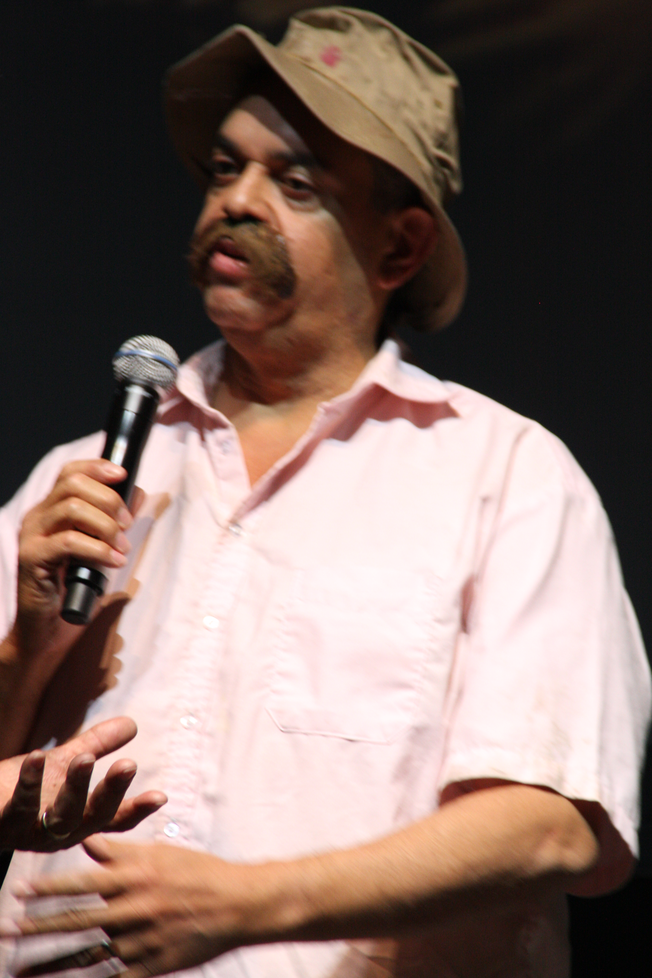 Dominican comedian Boruga.